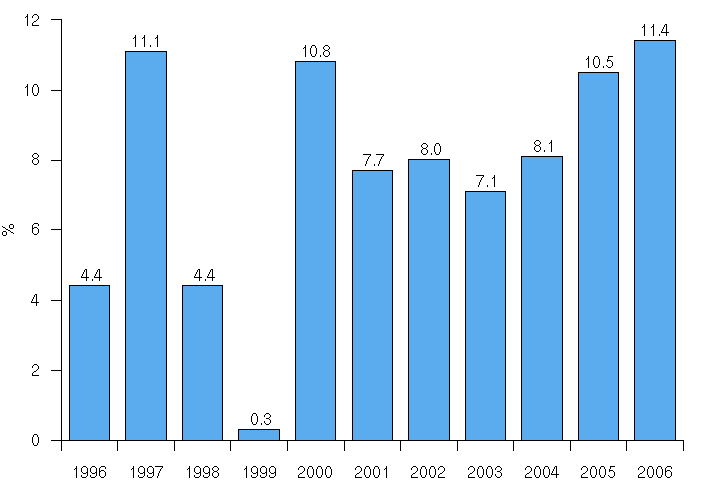 Annual change in the real GDP of Estonia